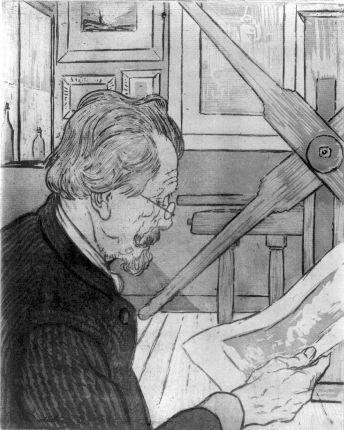 Portrait of Eugène Delâtre's father, Auguste Delâtre, by French painter and engraver Eugène Delâtre (1864-1938).